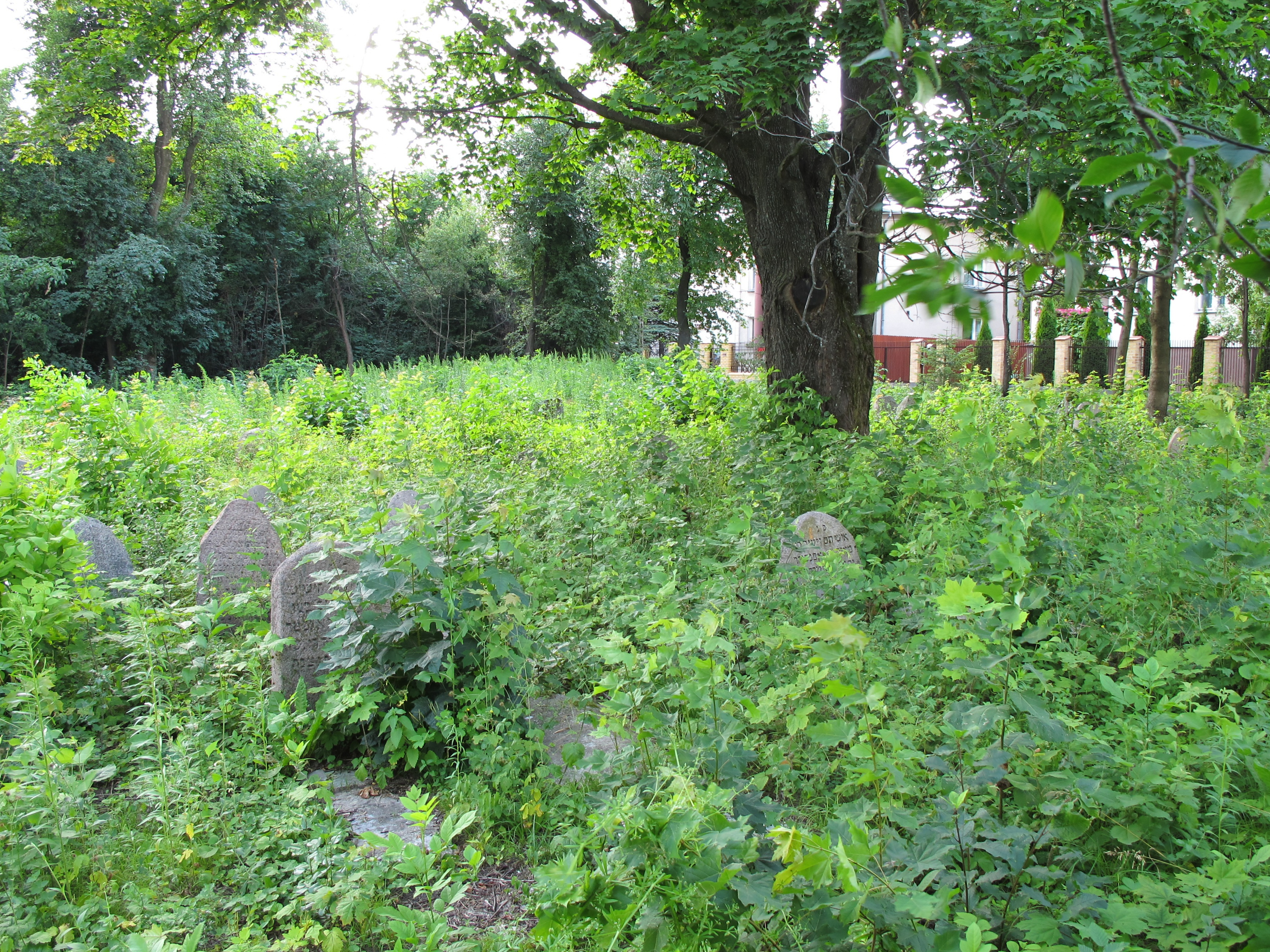 Jewish cemetery by Icchok Malmed's street in Sokółka, gmina Sokółka, podlaskie, Poland